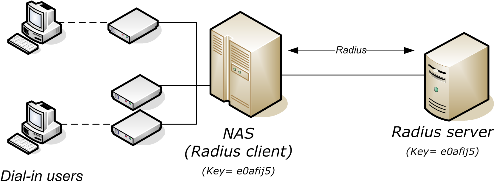 Diagram of the RADIUS protocol.